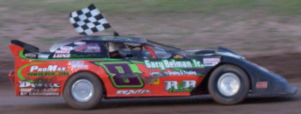 Late Model heat race winner #8r Billy Rezutek celebrates during his victory lap. He won at the Sheboygan County, Wisconsin fairgrounds at the Plymouth Dirt Track Racing on 07-07-07.